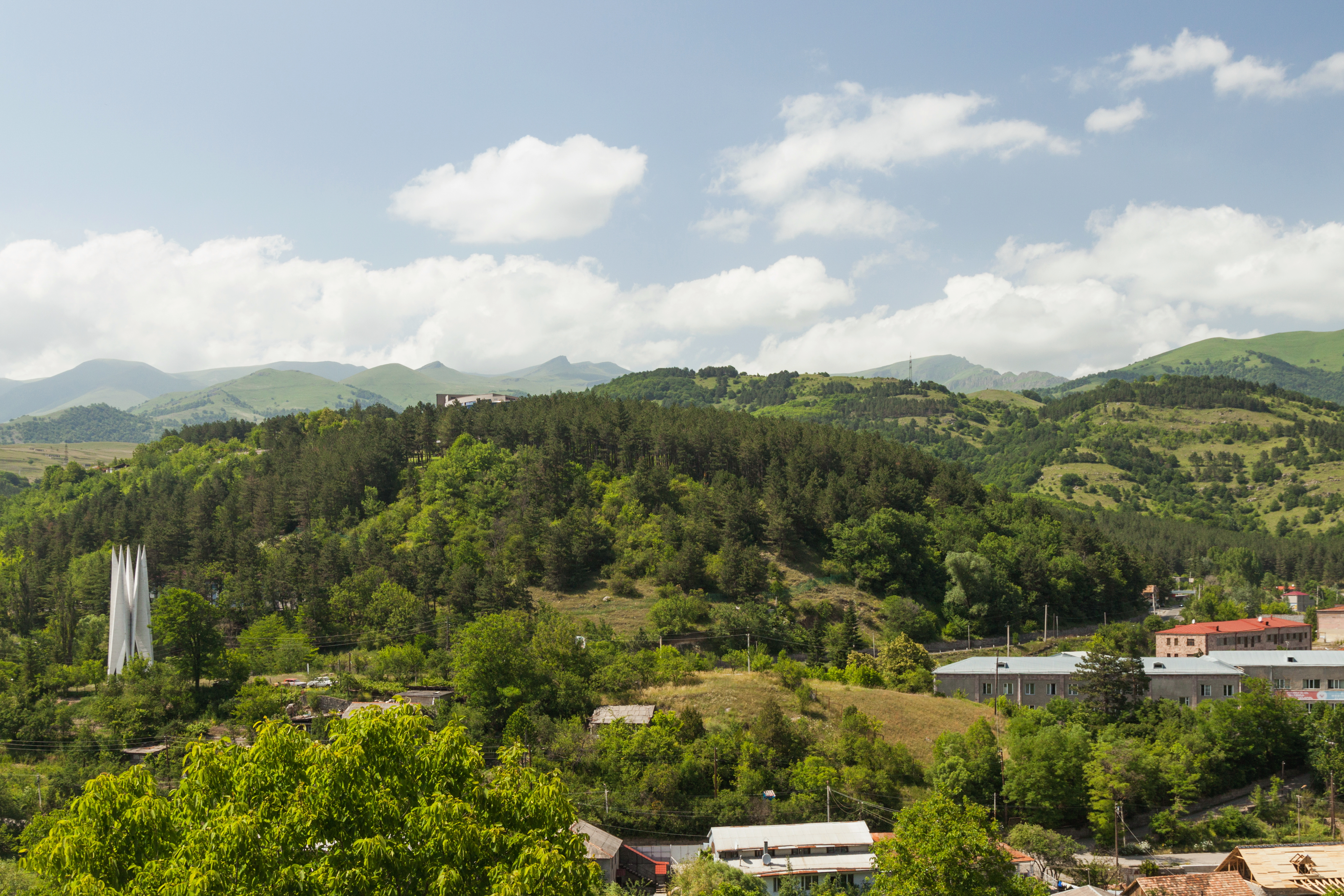 A view of the surrounding landscape. Dilijan, Tavush Province, Armenia.